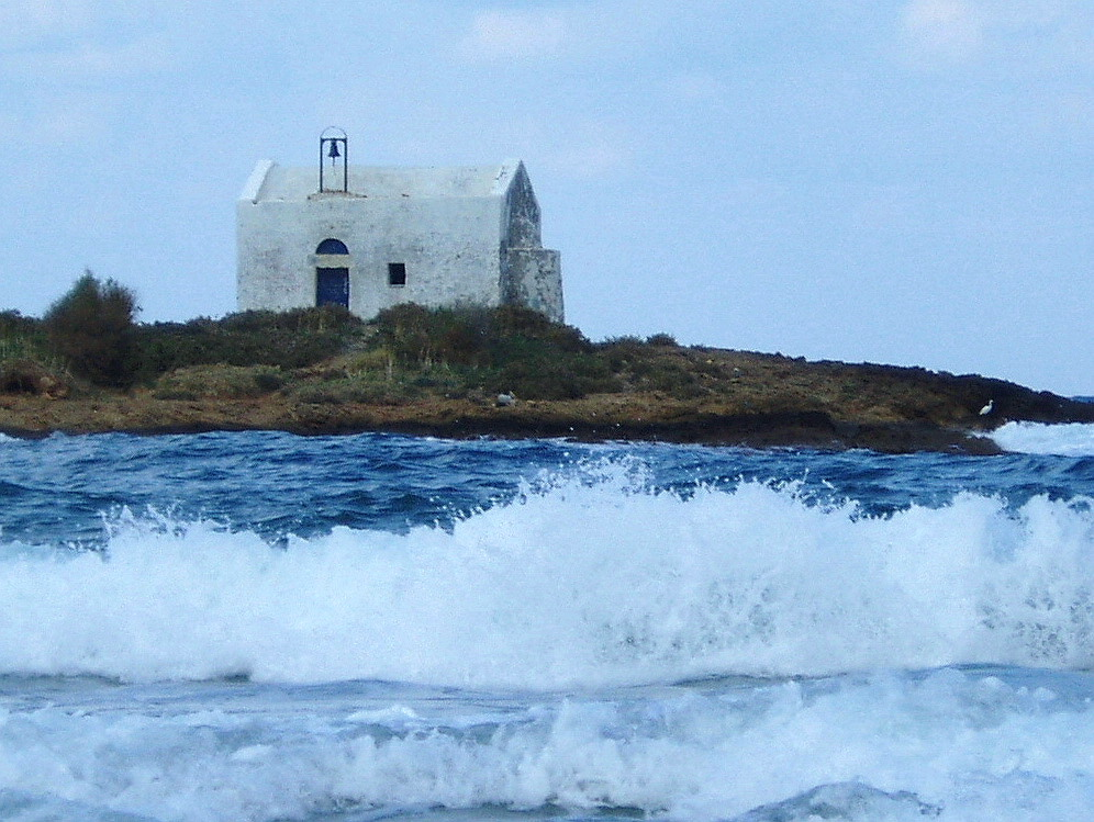 Afandis Christos Islet, Malia, Crete, Greece